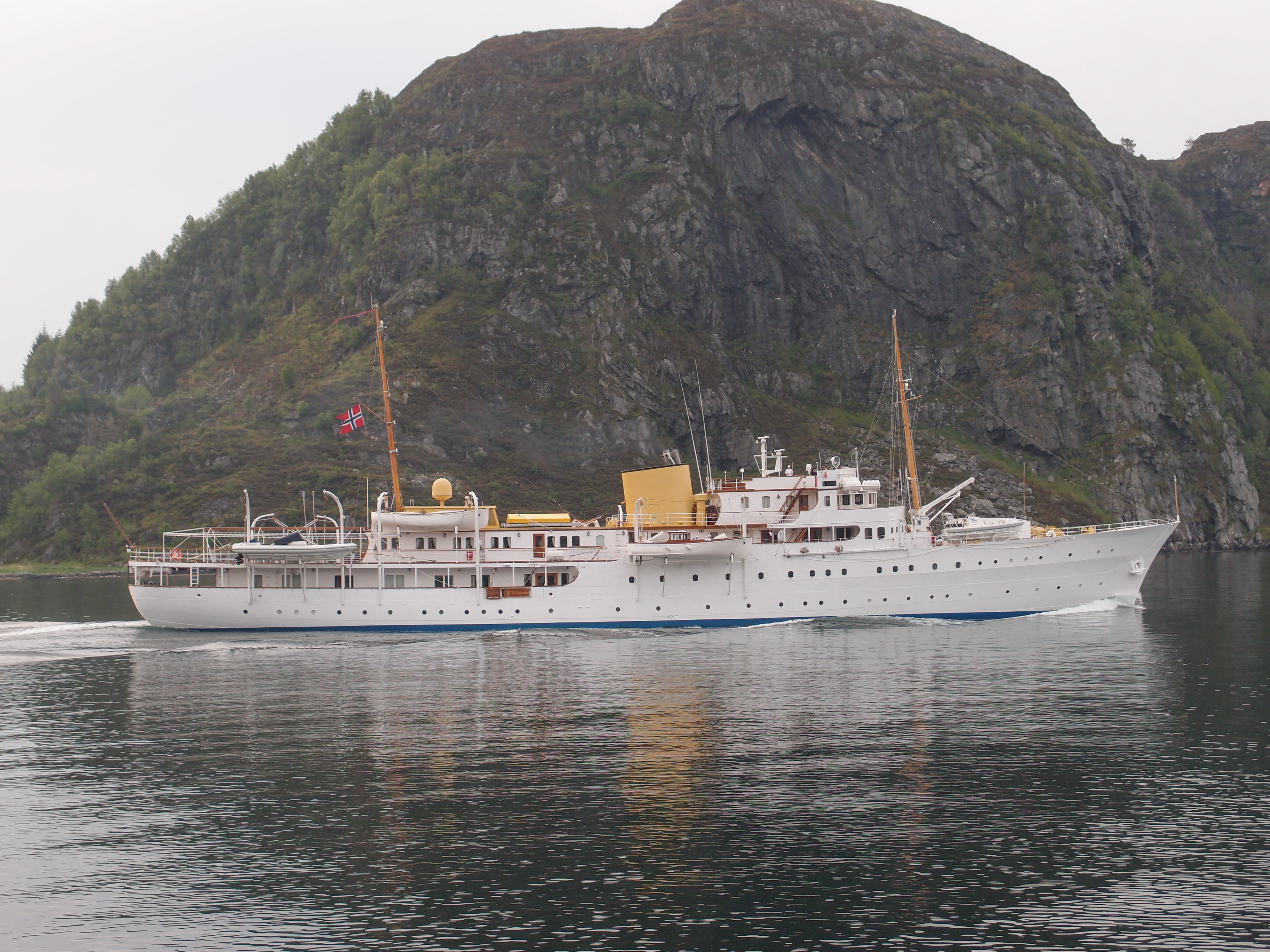 May 2014, the Norwegian royal yacht K/S Norge heading south through the Måløy sound.